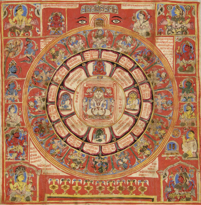 Siddhacakra from Gujarat, India, c. 1500, a Jain aid to meditation, ink and watercolor, 19½ x 19¼ in. (49.5 x 48.9 cm), Ackland Art Museum